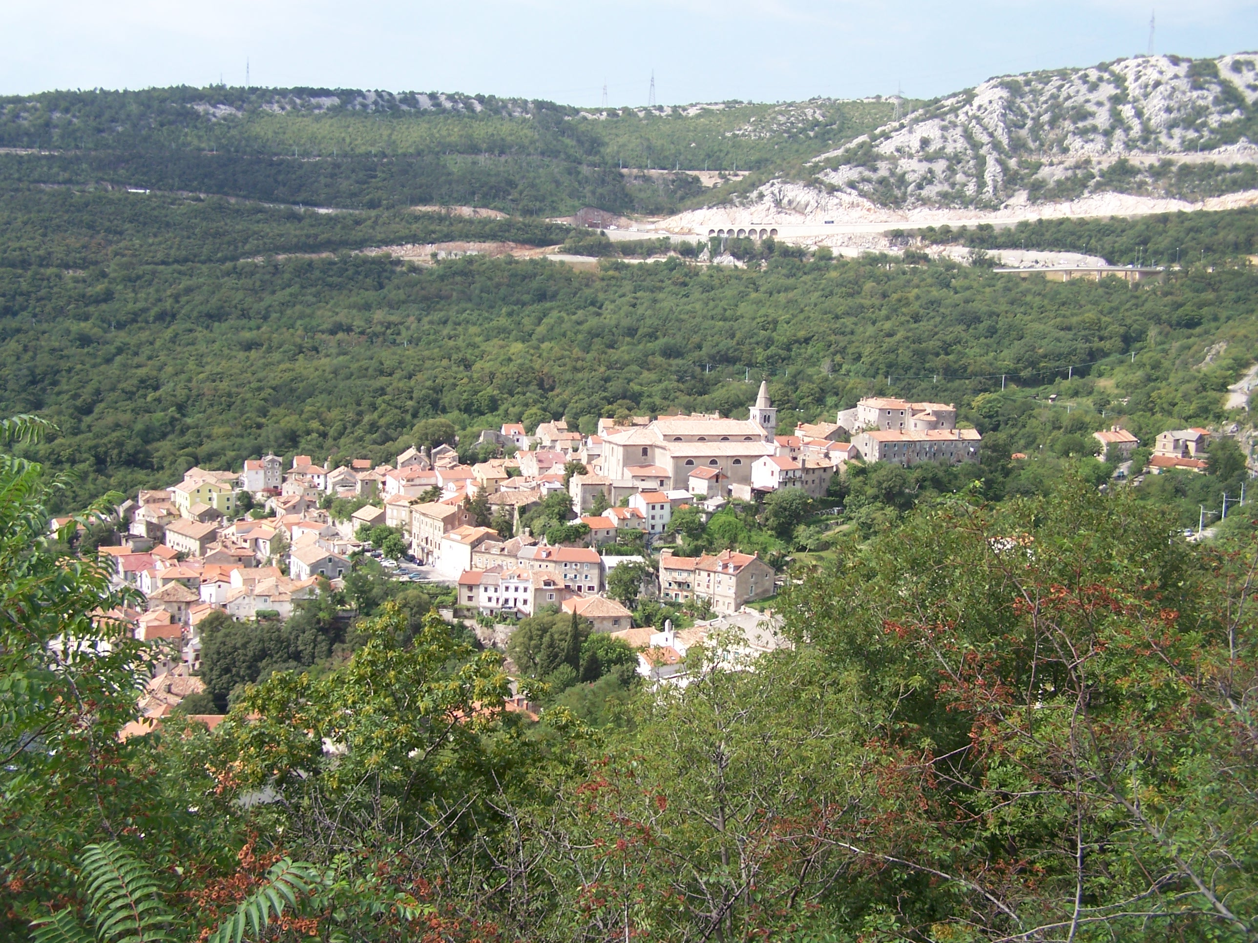 Bakar Hillside